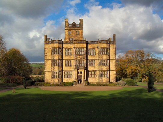 This photo was taken by Iain Hart November 2005 and can be used by anyone although if you do copy it please send me an email as I would like to know out of curiosity.